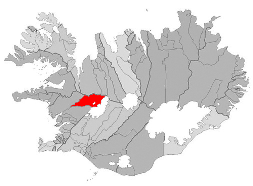 Based on Municipalities of Iceland.png.